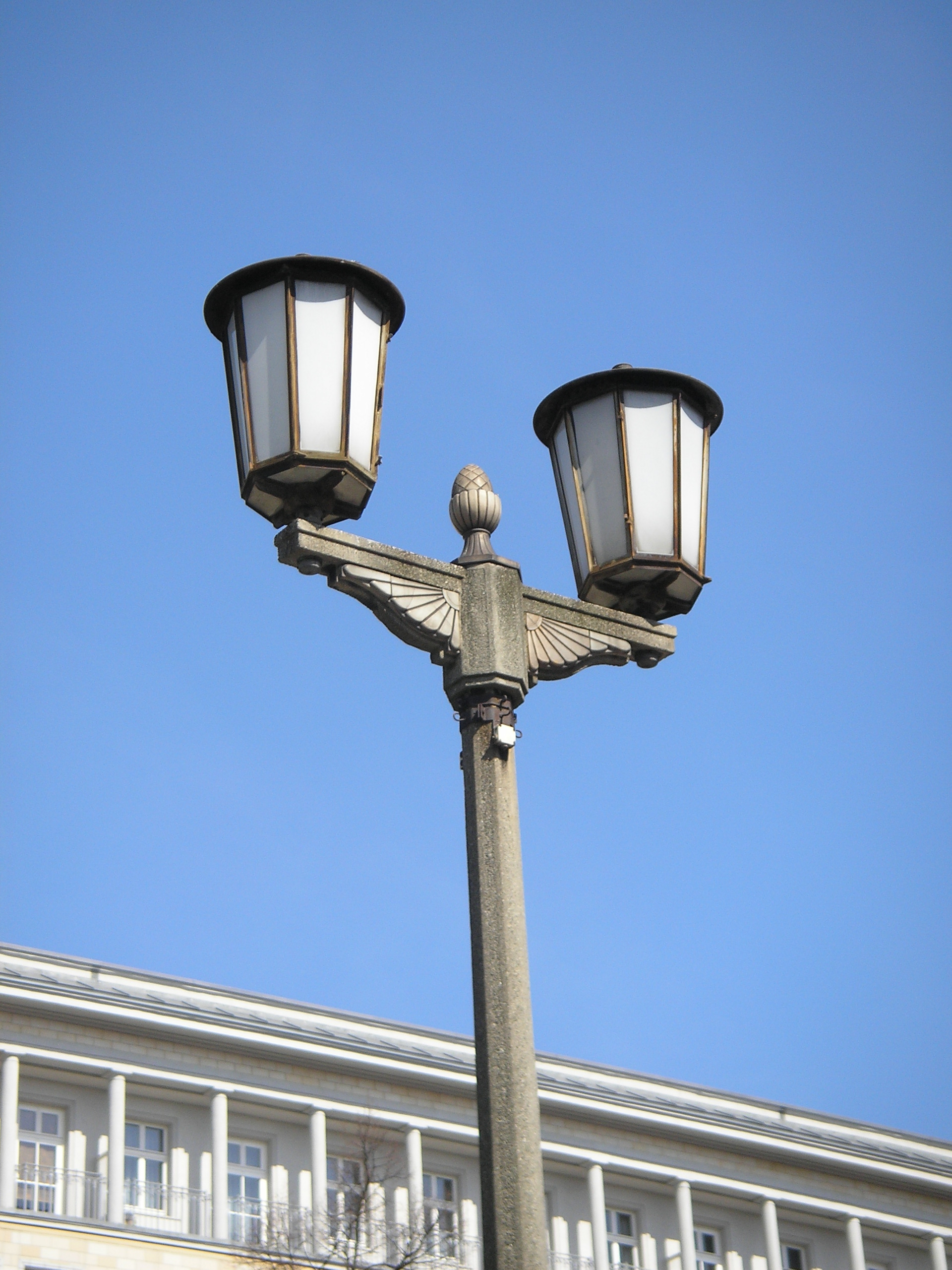 View of street lantern on Block E North Side on Karl-Marx-Allee in Berlin. Architect Hanns Hopp. Constructed around 1952.